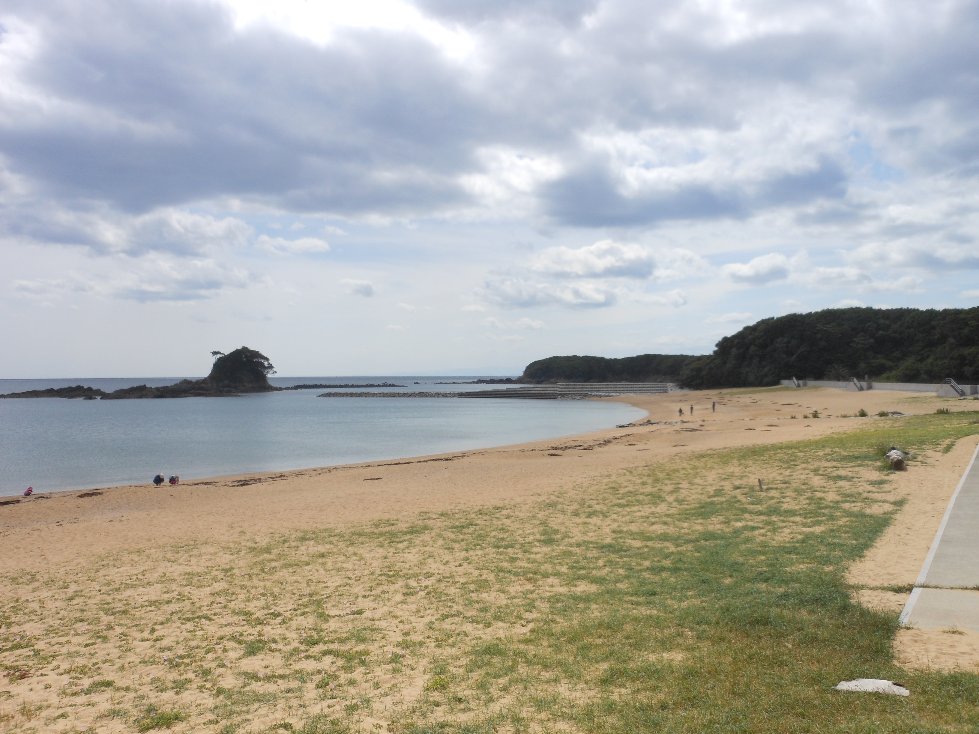 This is a landscape of Azuri beach in Shima, Mie, Japan.